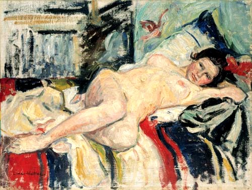 Painting Liegender Akt by Heinrich Eduard Linde-Walther, 1910. 46,5 x 61.